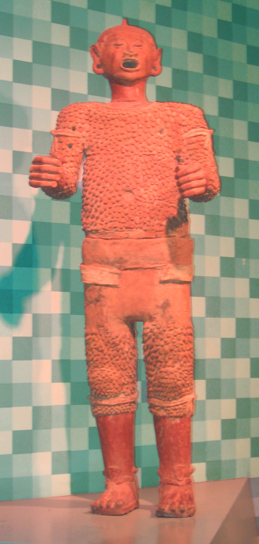 A life-size Hollow ceramic statue of Xipe Totec, a late Mesoamerican god. This statue was found in a cave at Coatlinchan near Texcoco in the early 1900s. This statute, like many renditions of Xipe Totec, wears a flayed skin from a sacrificial victim. Height: 151 cm (5 ft).